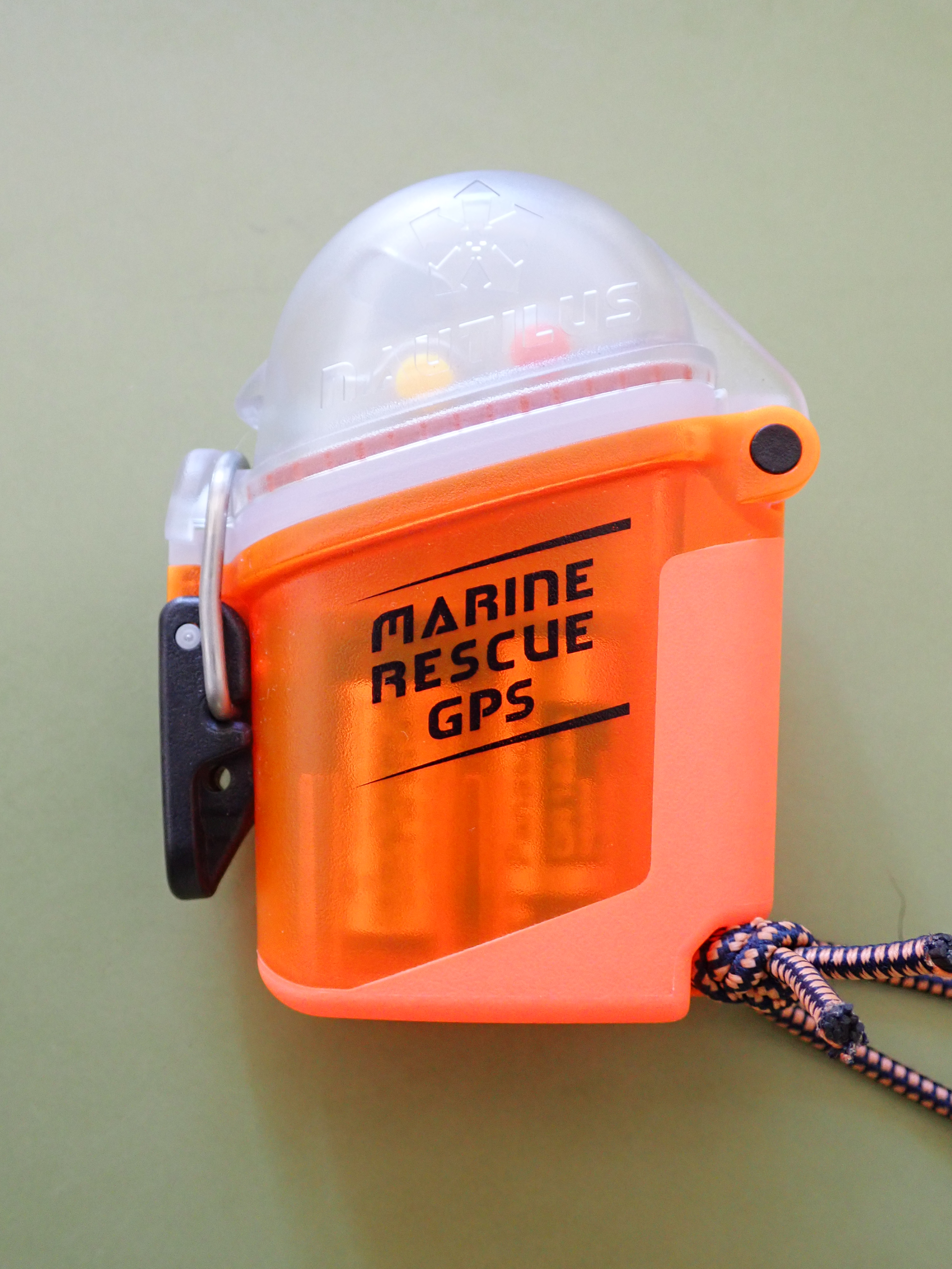 Emergency locator beacon for divers which can send a signal to VHF radio or AIS recievers on vessels in the vicinity. Waterproof to 130msw